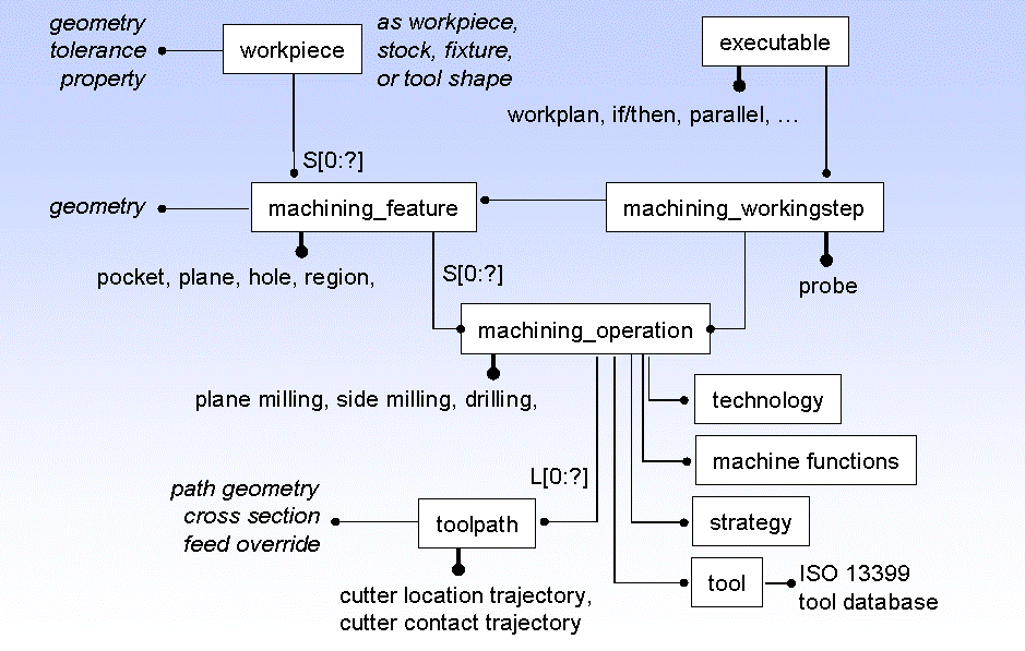 EXPRESS-G diagram of the STEP-NC process model, showing the major concepts and links to other information.